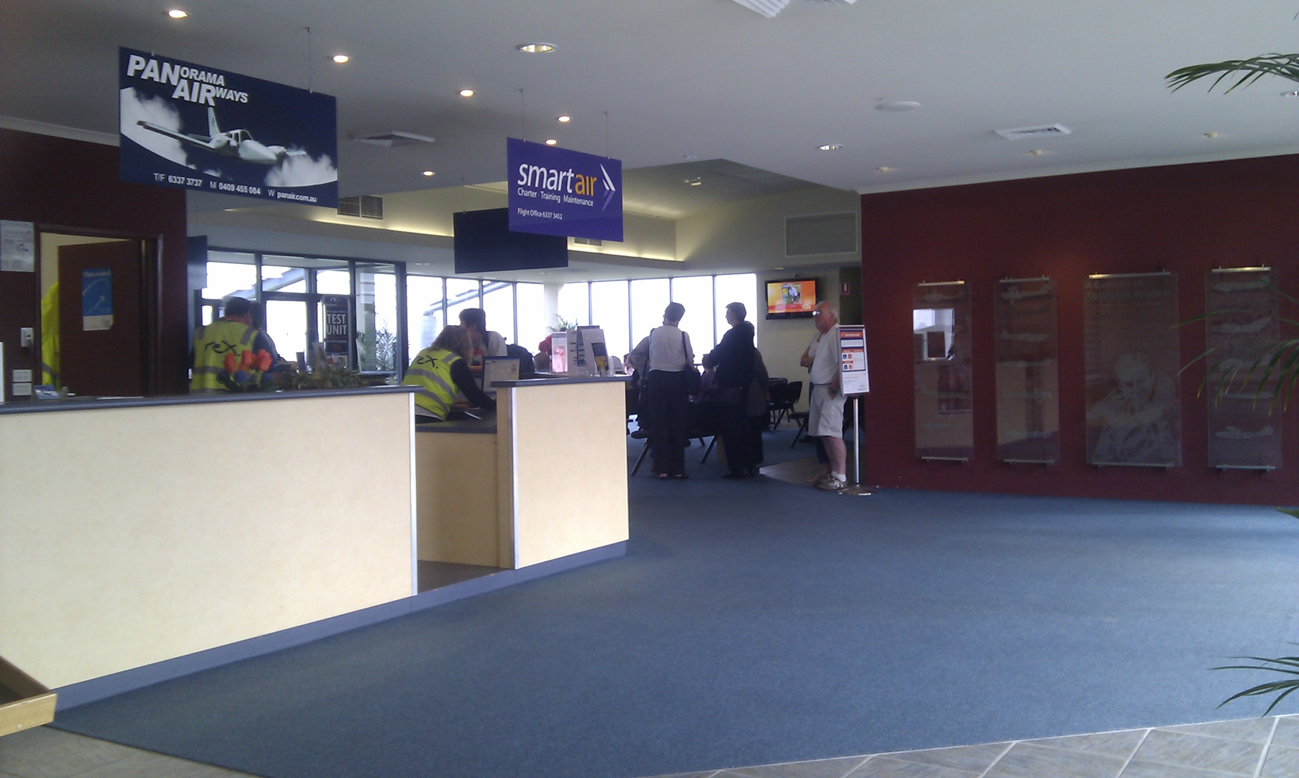 Bathurst New South Wales, inside airport terminal, March 2011